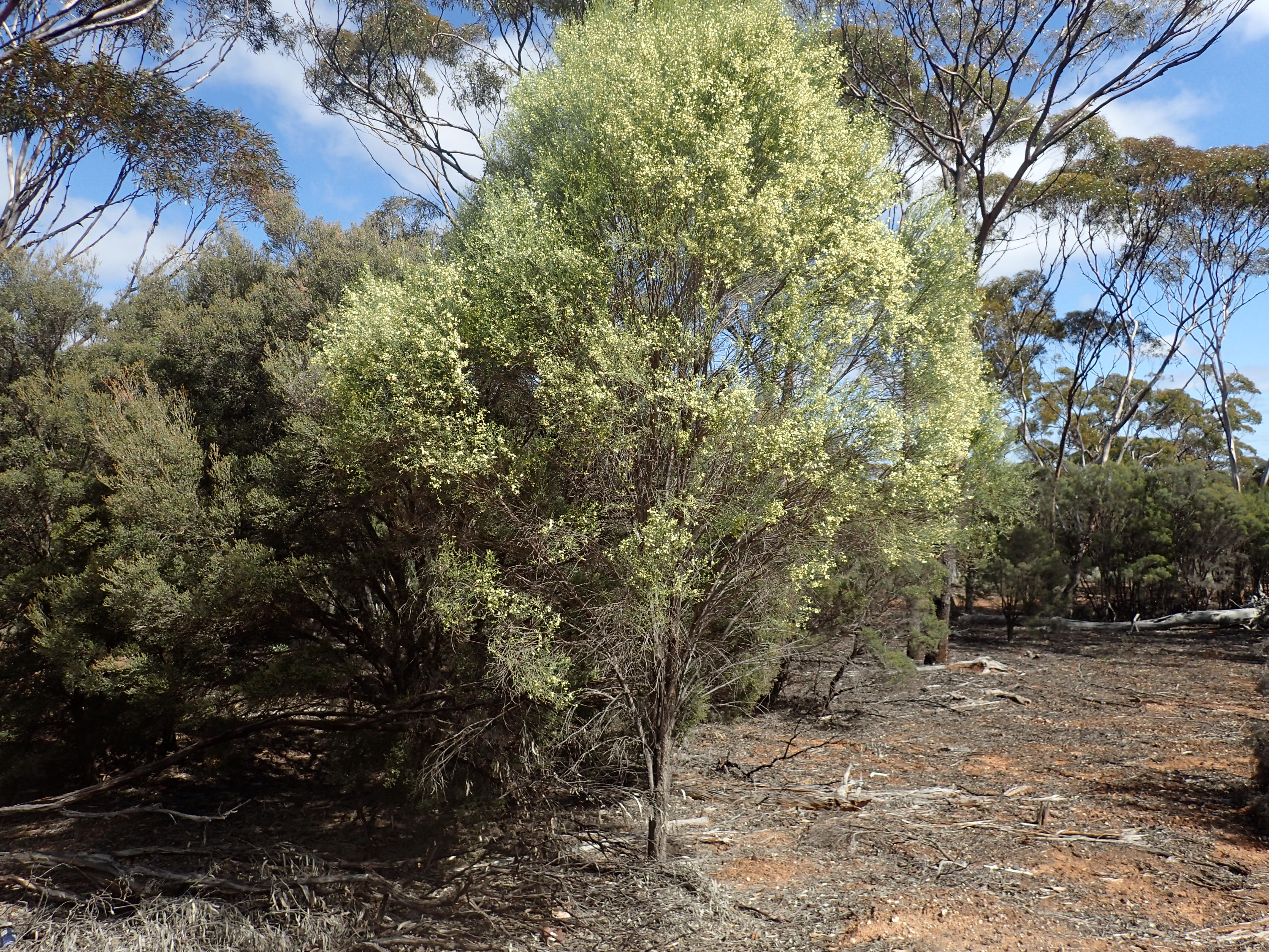 Eremophila interstans interstans growing 12 km south of Norseman